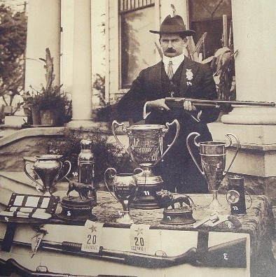 Forest McNeir's trophies and awards